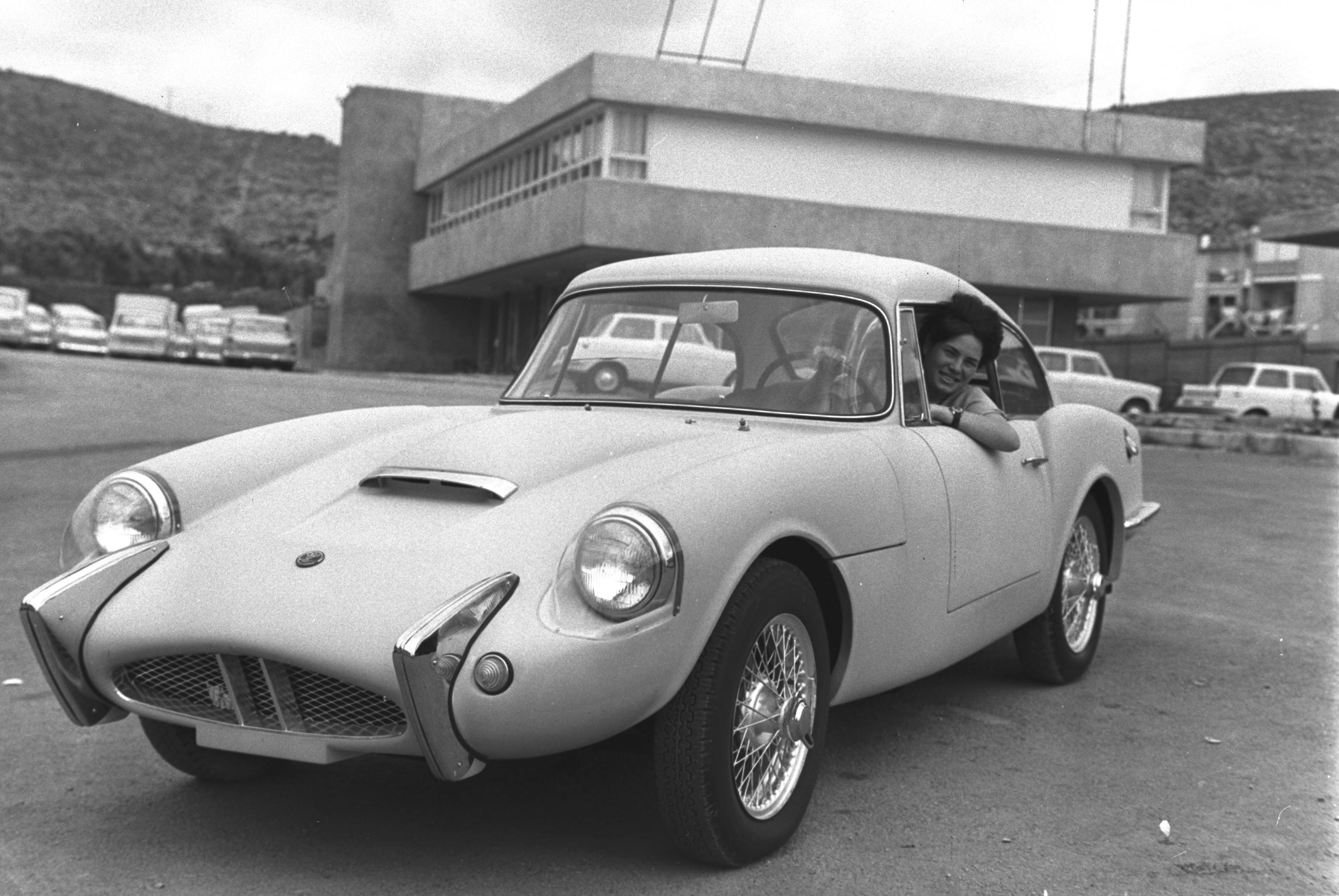 A FIBER GLASS BODY SABRA SPORTS CAR IN FRONT OF THE AUTOCARS CAR FACTORY IN TIRAT HA'CARMEL NEAR HAIFA (09/03/1967).